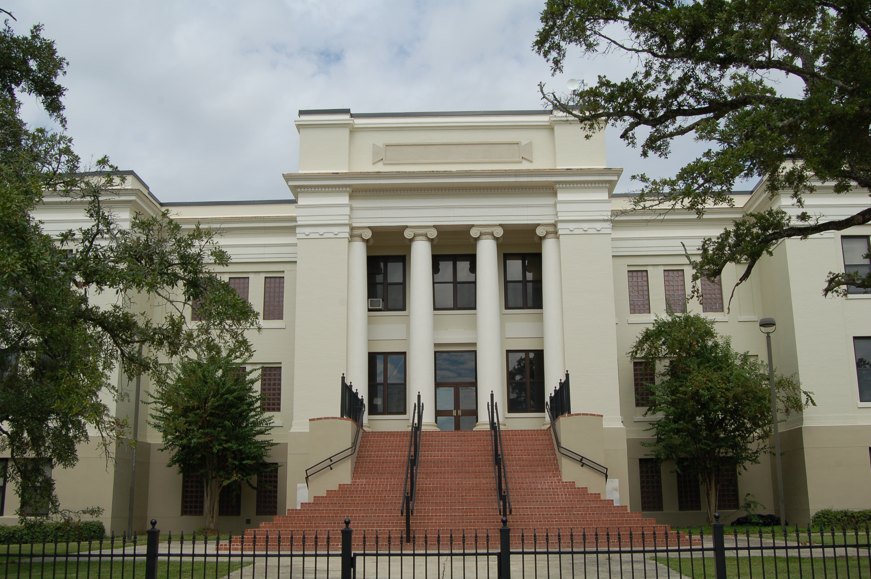 Plaquemine High School